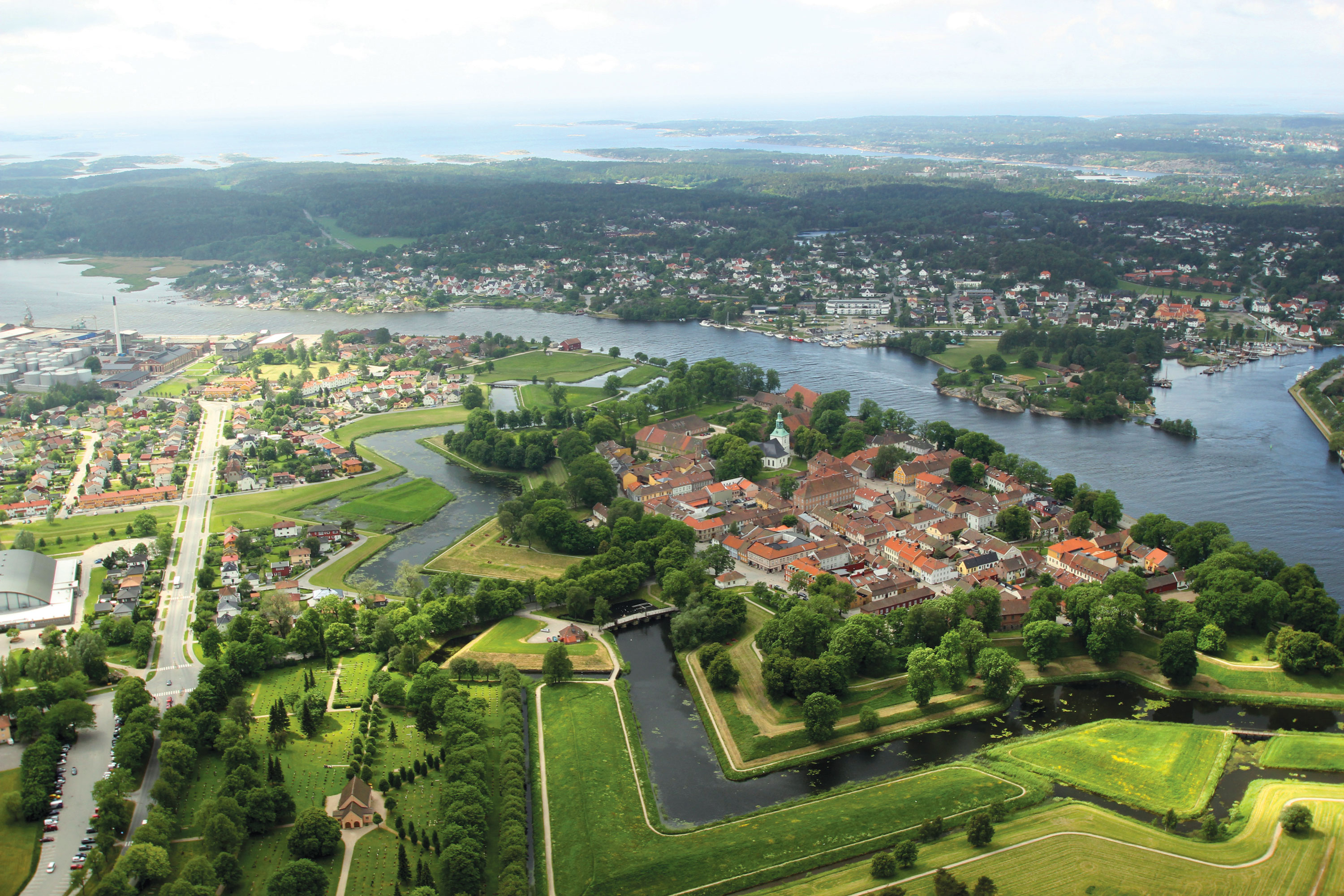 Old town Fredrikstad seen from air.